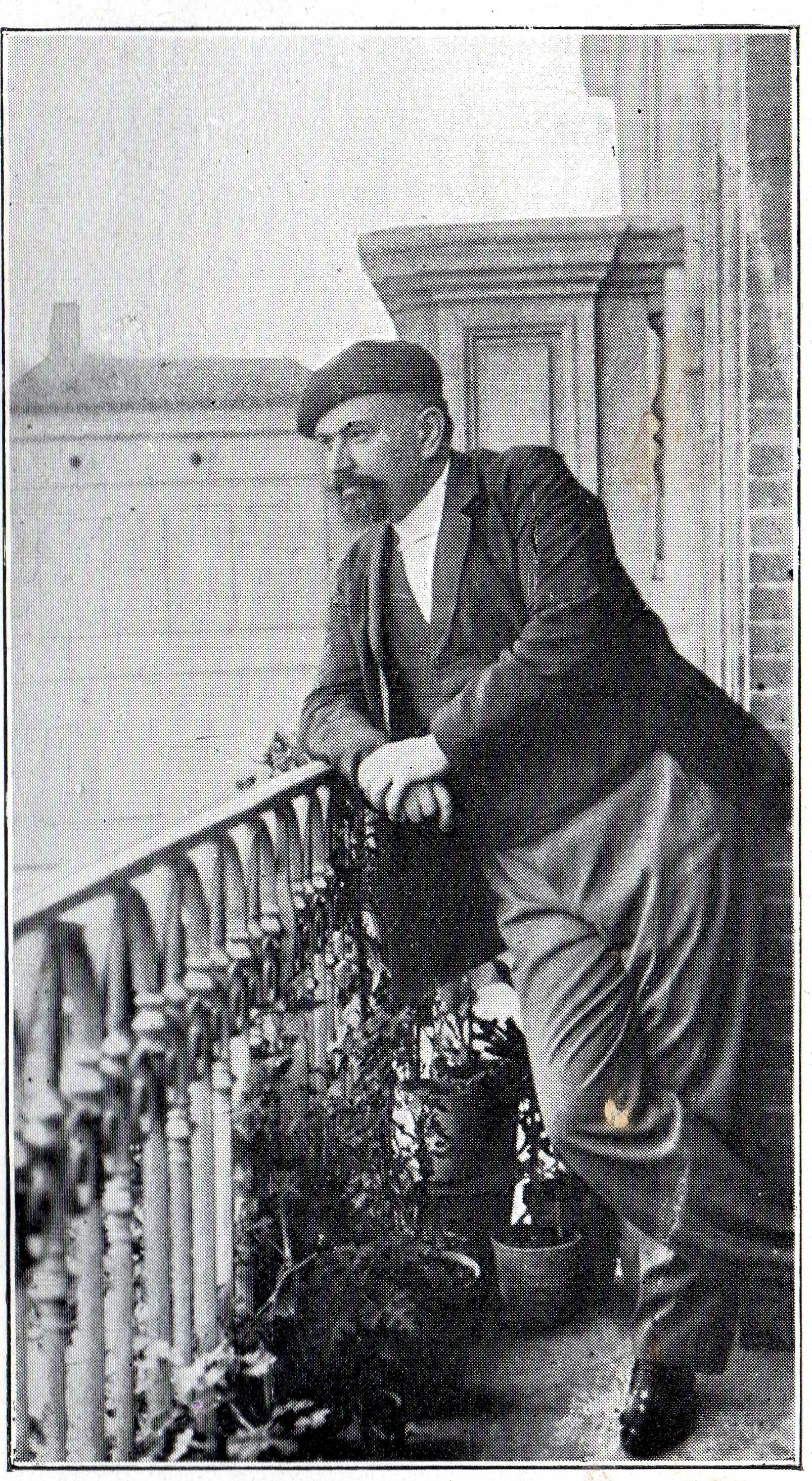 Al-Cartero's portrait (taken from L'Escarre-Saq, 1926)